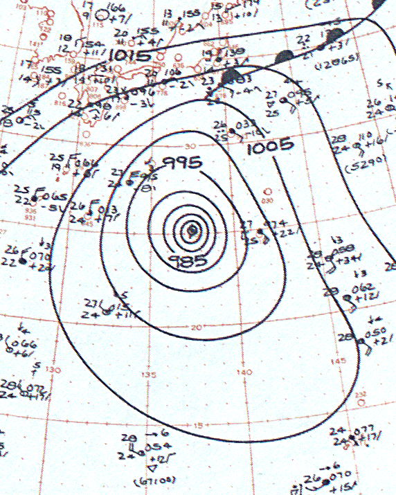 Surface weather analysis map of Typhoon Violet on October 8, 1961.